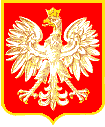 Coat of Arms, Poland 1927-1939